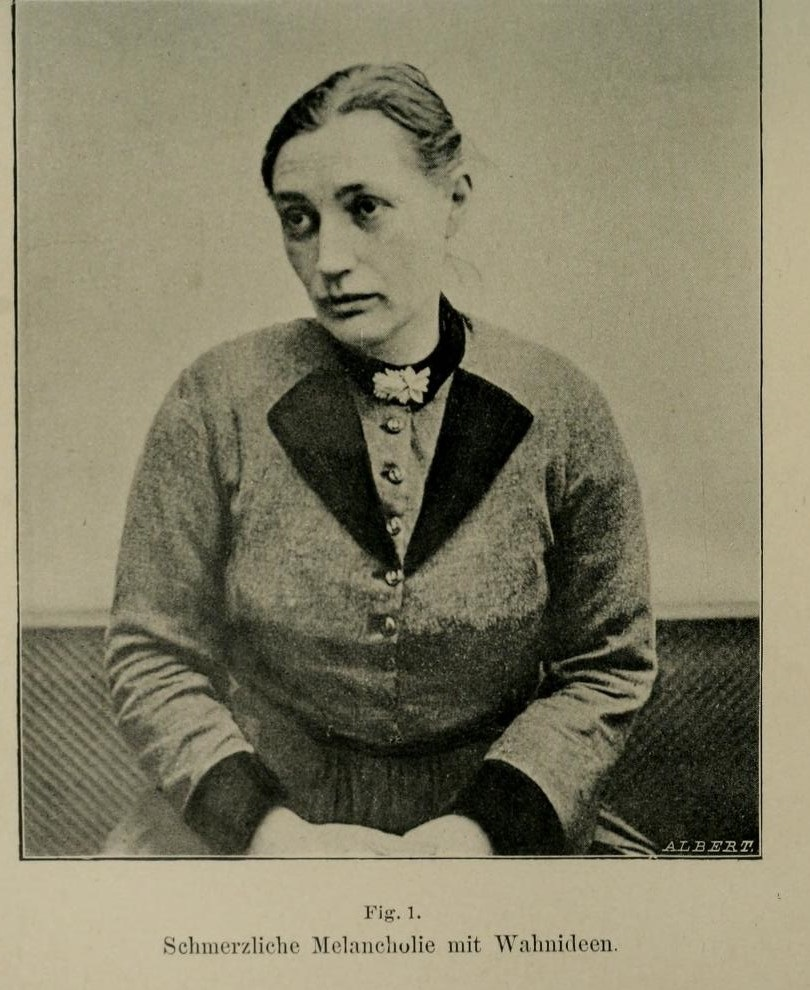 Scholz (1892) Lehrbuch der Irrenheilkunde p.120, reused in Szondi test in serie 1 image 4.